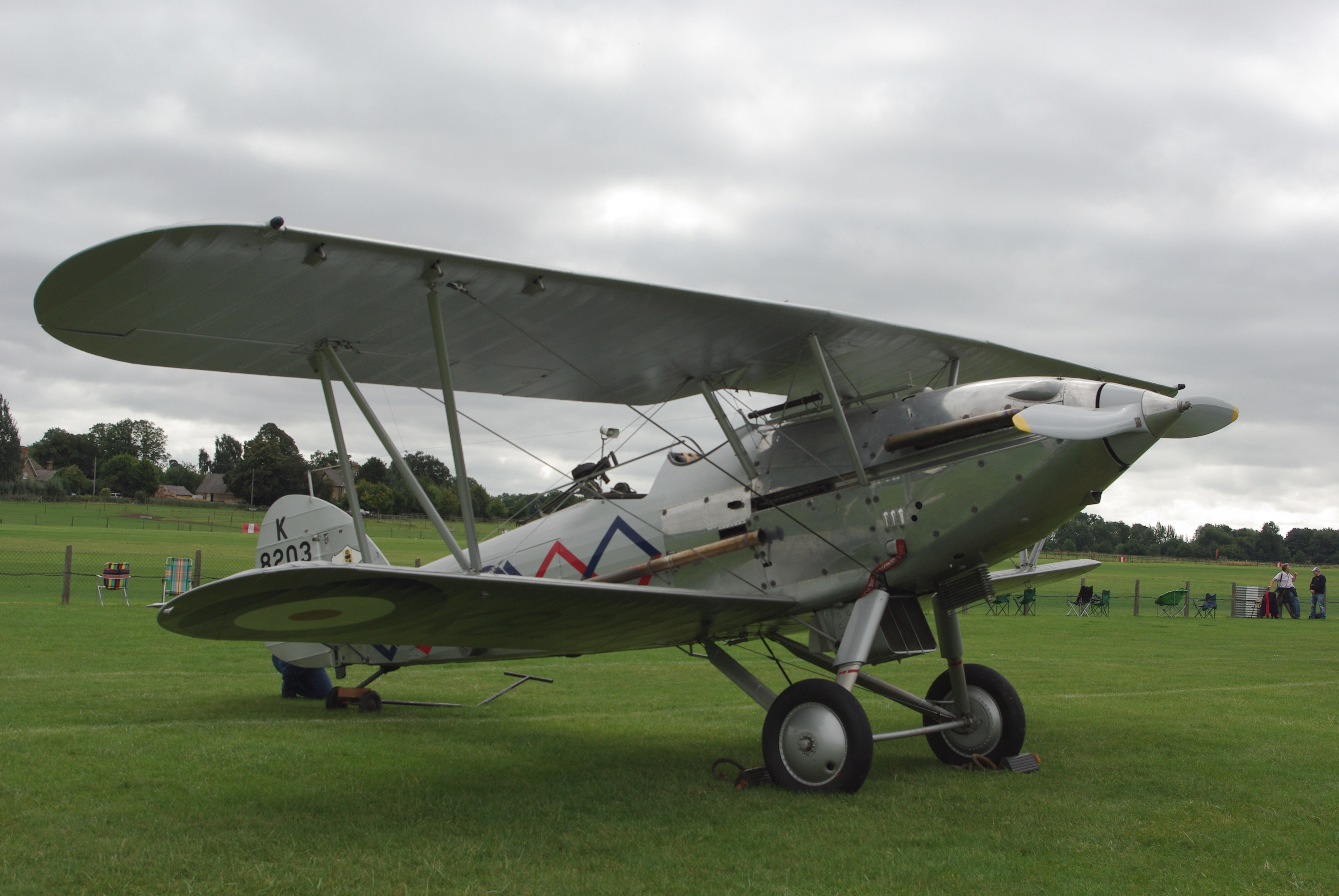 Hawker Demon G-BTVE (K8203) at the 2013 Shuttleworth Uncovered event